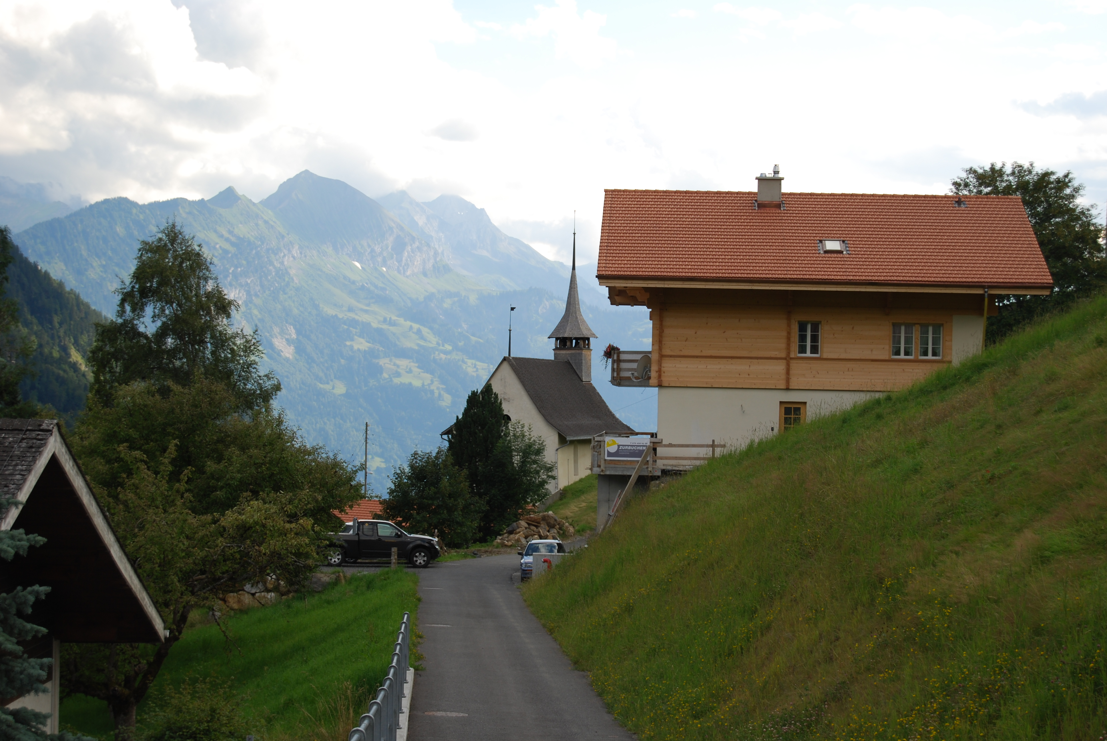 Church of Habkern, canton of Bern, SwitzerlandEsperanto: Preĝejo de Habkern, Kantono Berno, Svislando